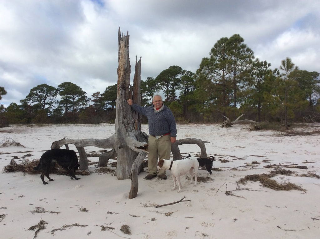 Jack Rudloe, founder of Gulf Specimen Marine Laboratory and Aquarium, with his dog Rita (white)and two other dogs somewhere between Bald Point State Park and Alligator Point, near Panacea Florida